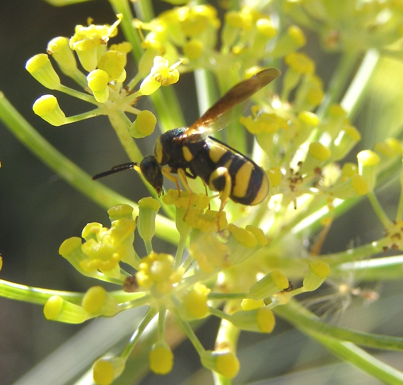 Leucospis dorsigera, feeding on Foeniculum vulgare.